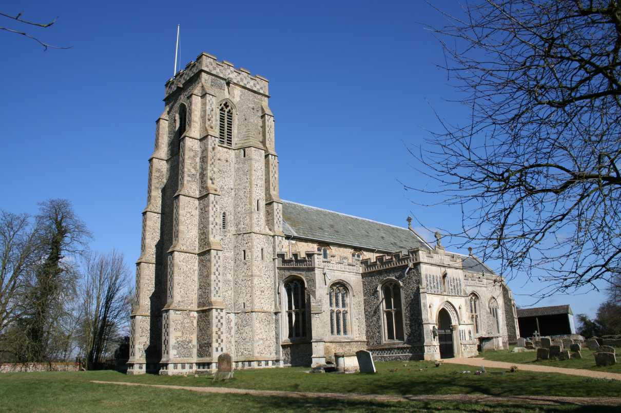 St Peter's parish church Cockfield, Suffolk, seen from the south